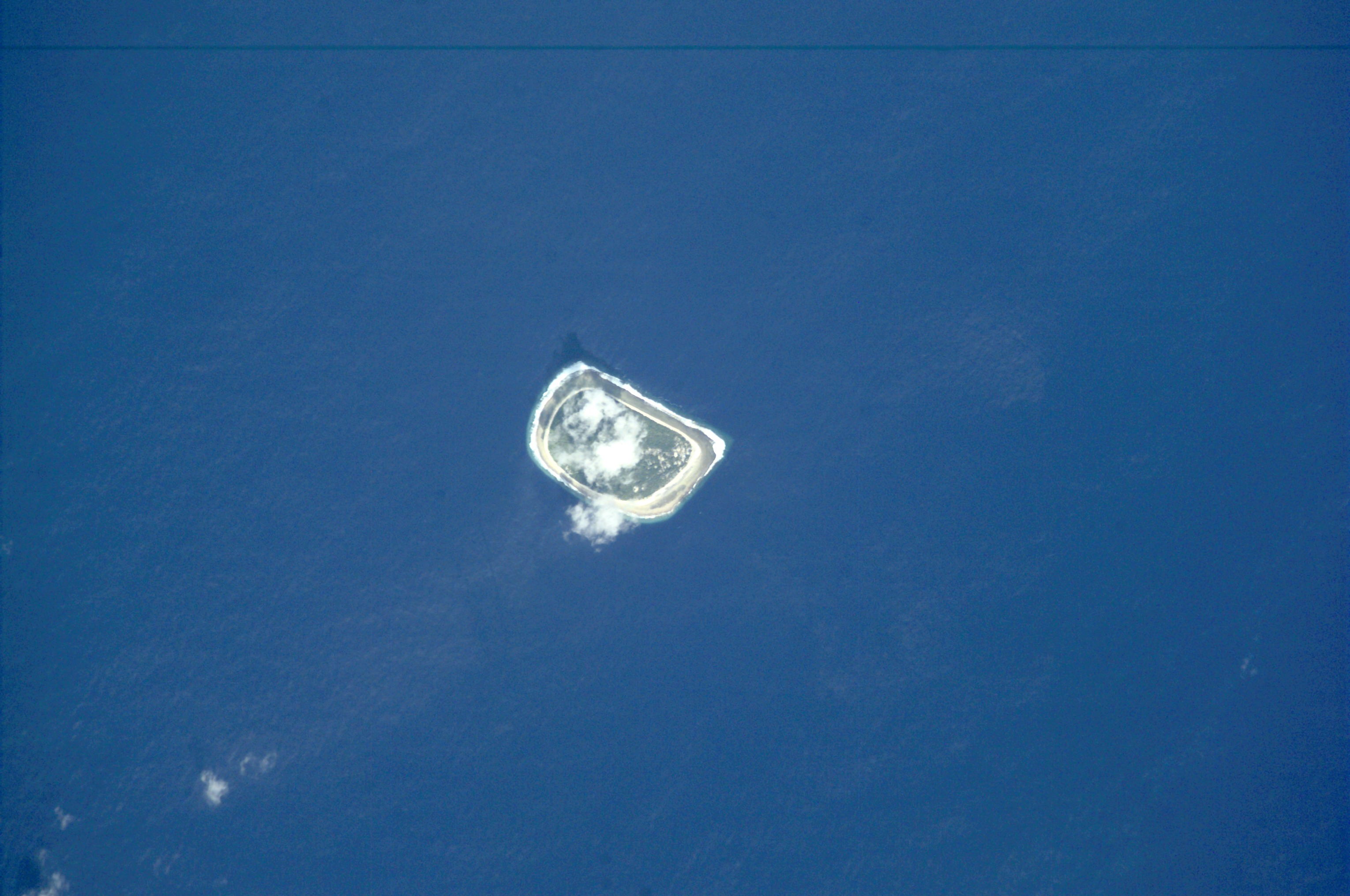 NASA astronaut image of Nassau Island (Cook Islands) in the Pacific Ocean